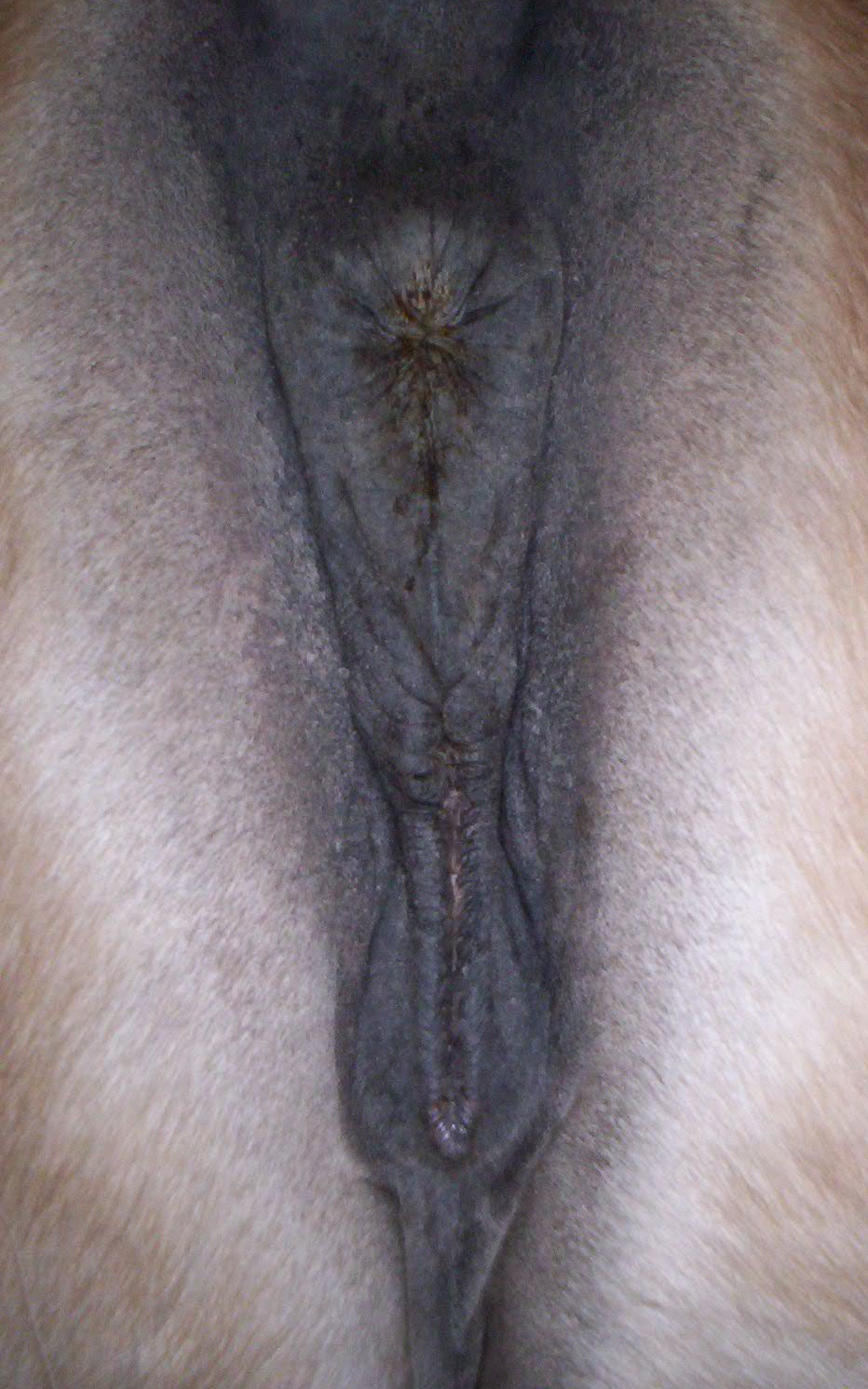 Vulva und Anus of a female horse, a Haflinger mare